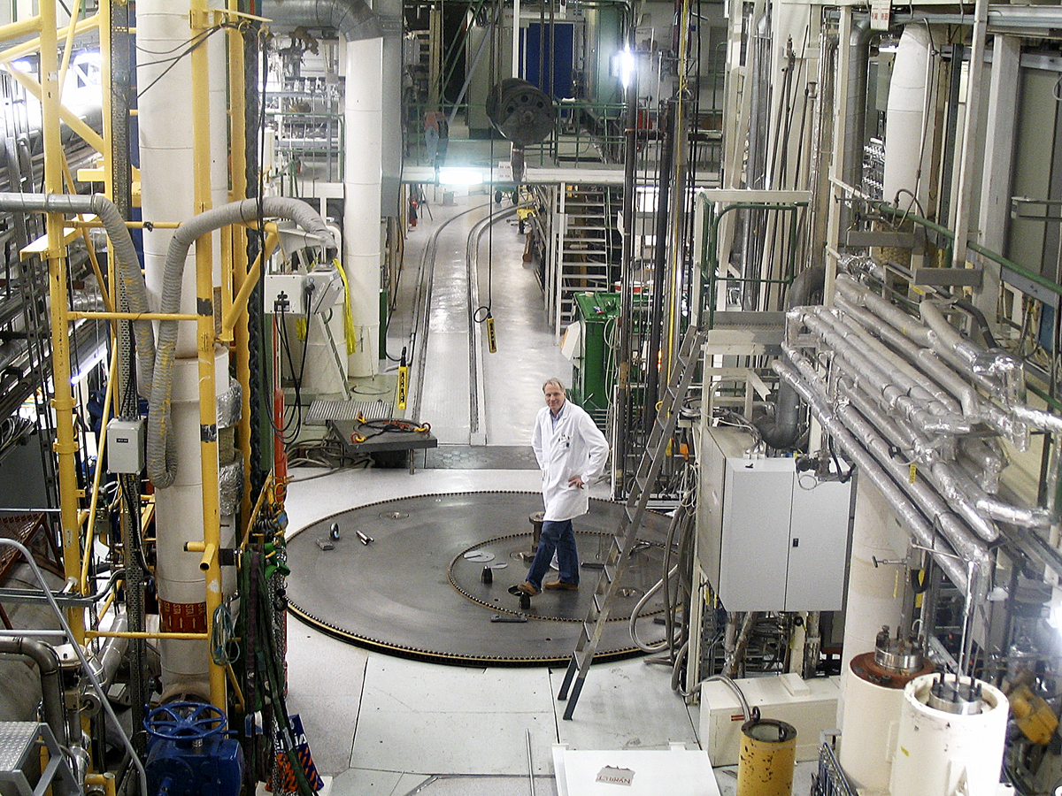 IFE's nuclear power plant in Halden, Norway, is used as a tool for scientific research in nuclear power safety. Norwegian: Haldenreaktoren er et verdensledende forskningsverktøy innen kjernekraftsikkerhet